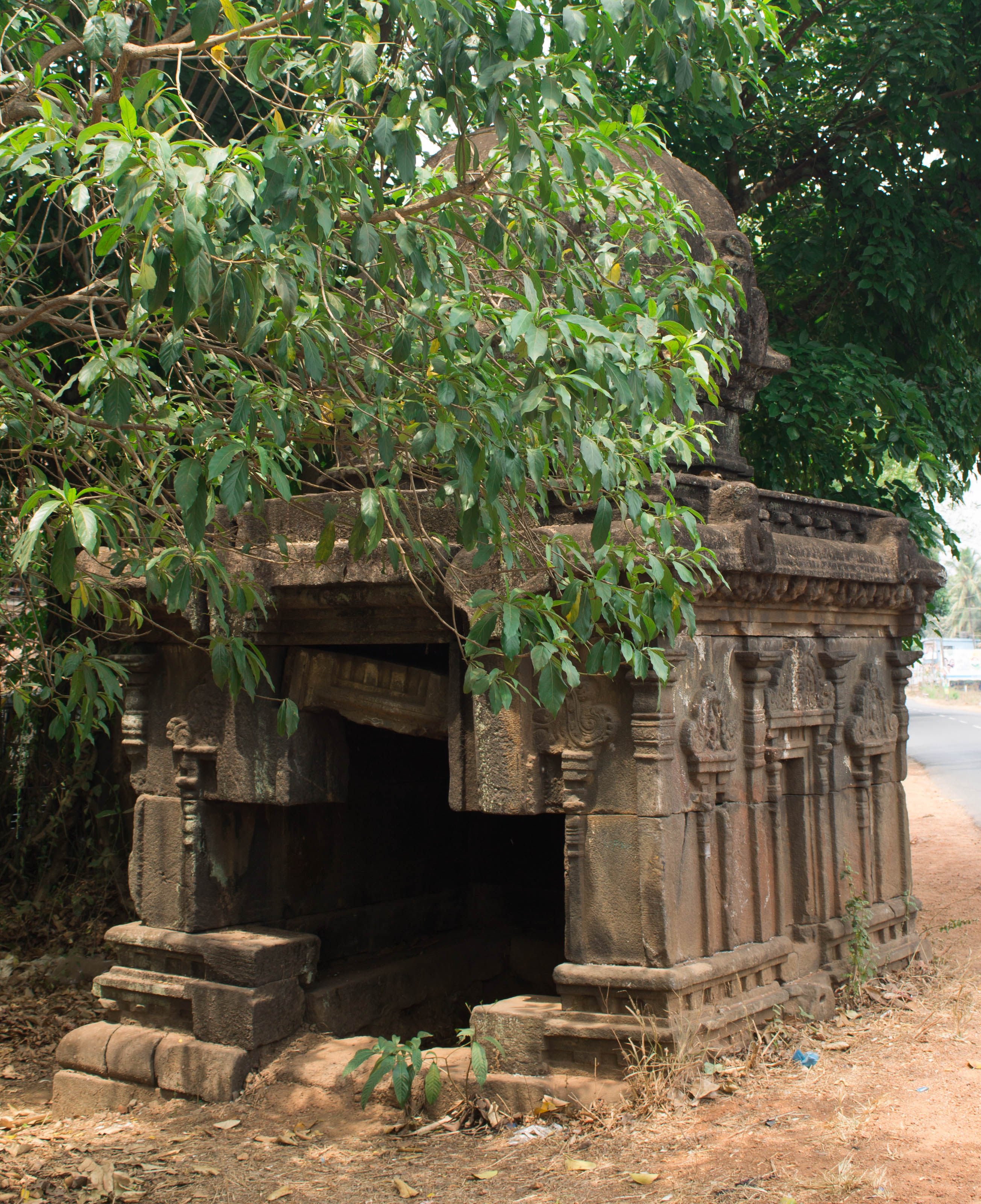 Thottil madam, pattambi